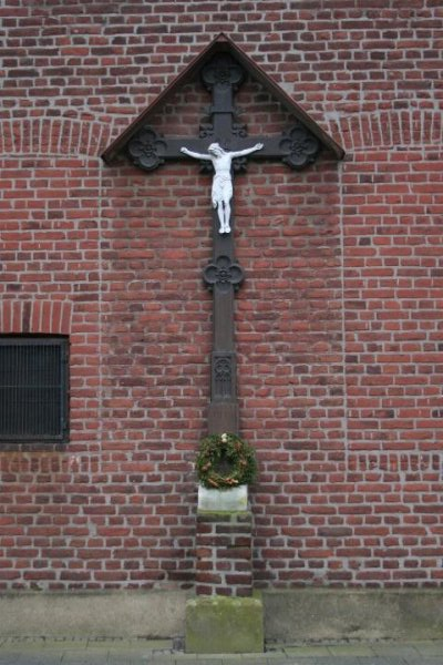 Cultural heritage monument No. 34 in Gangelt